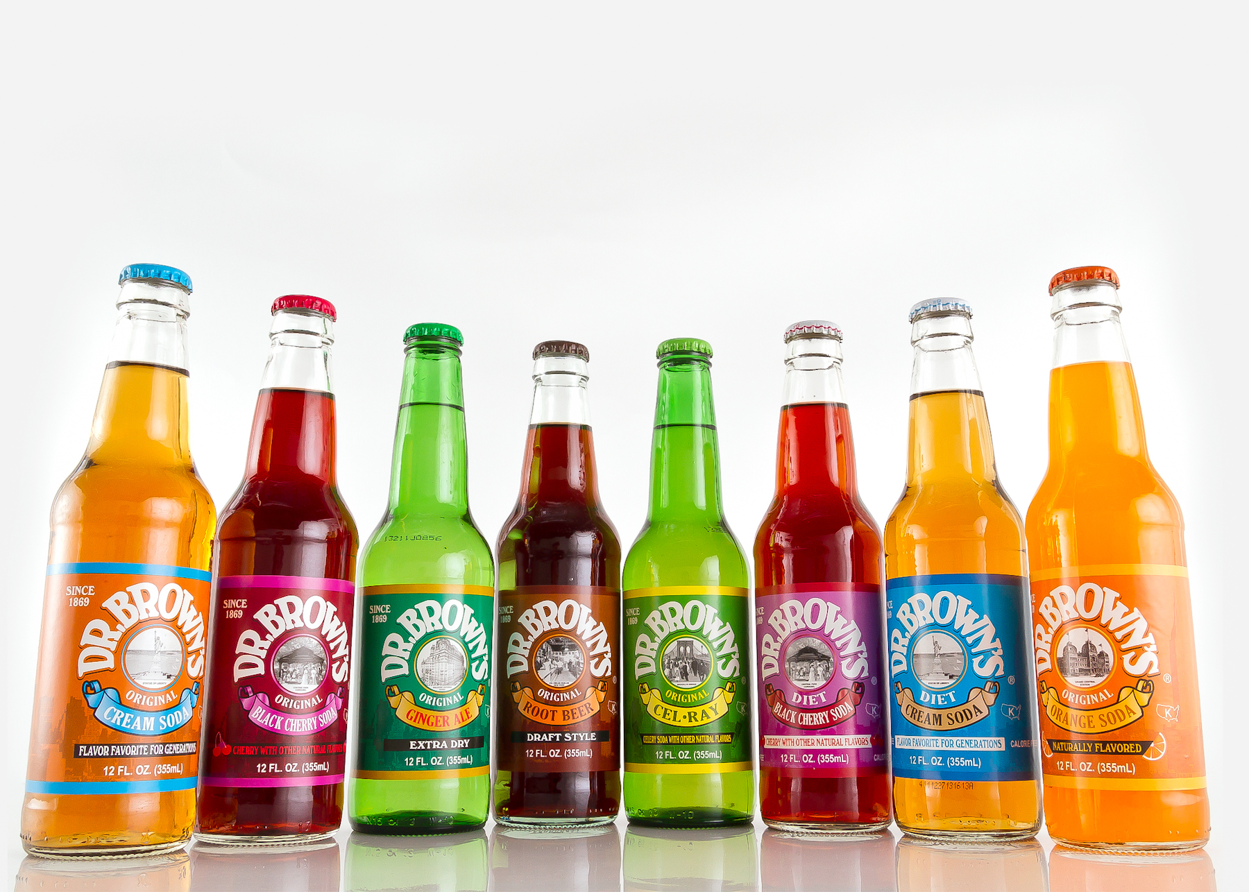 12 oz line for Dr. Browns Soda